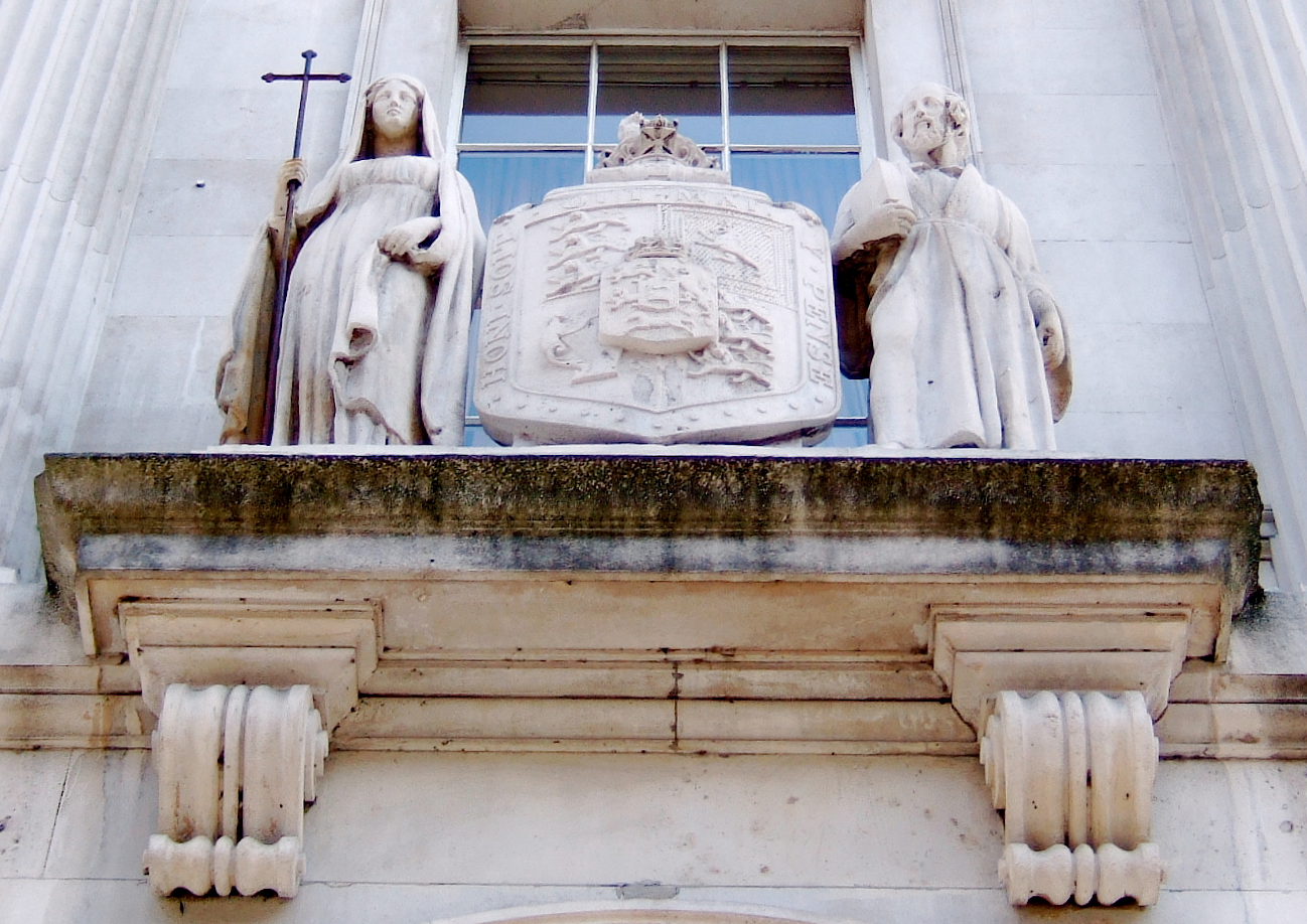 Cropped version of the original file (